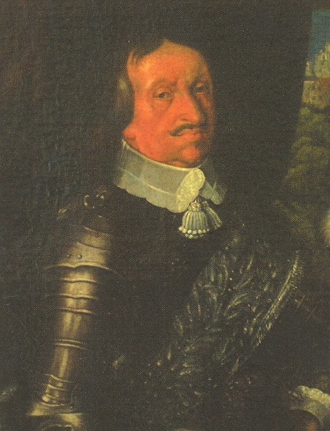 Frederick William II, Duke of Saxe-Altenburg